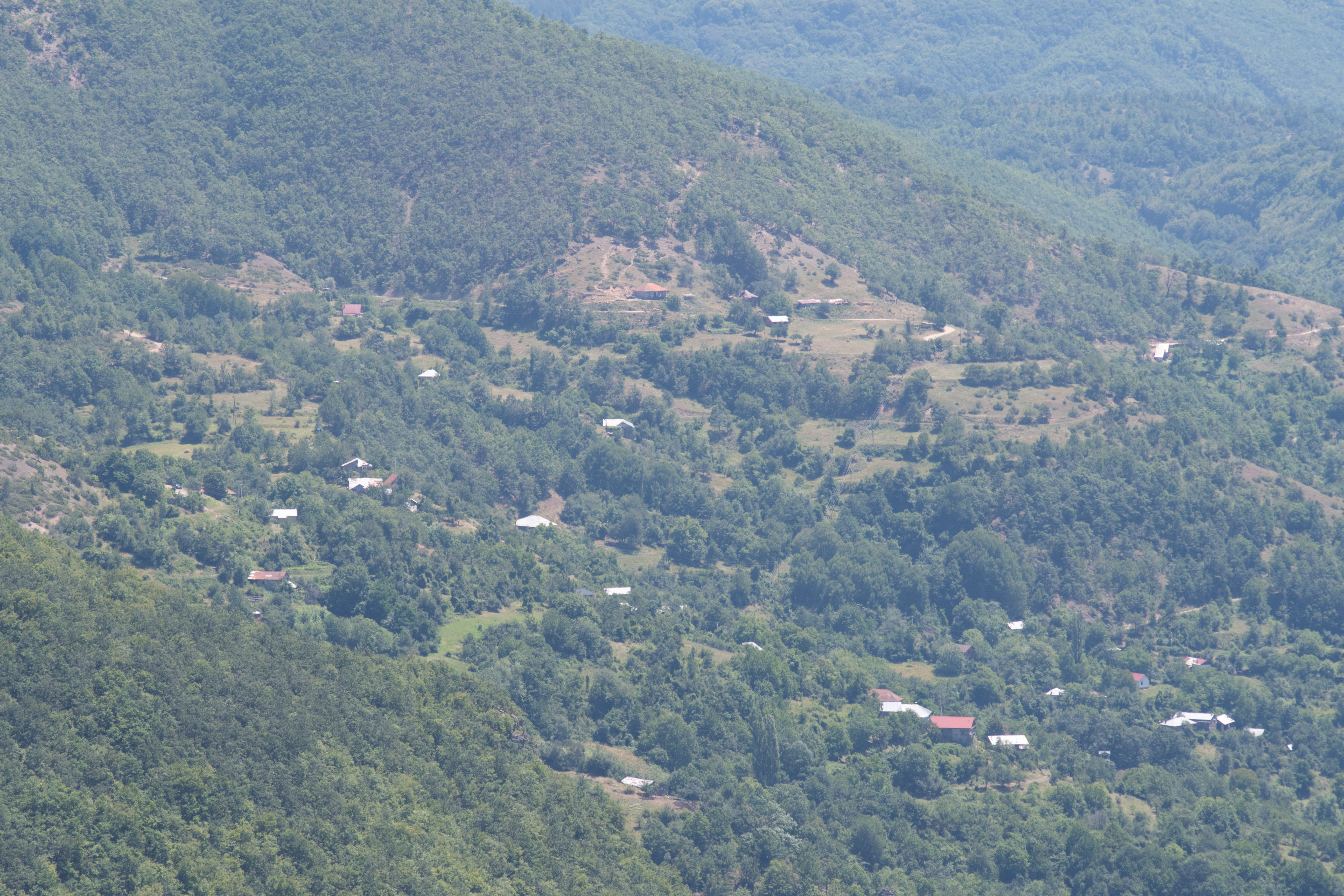 View of the village Zbaždi